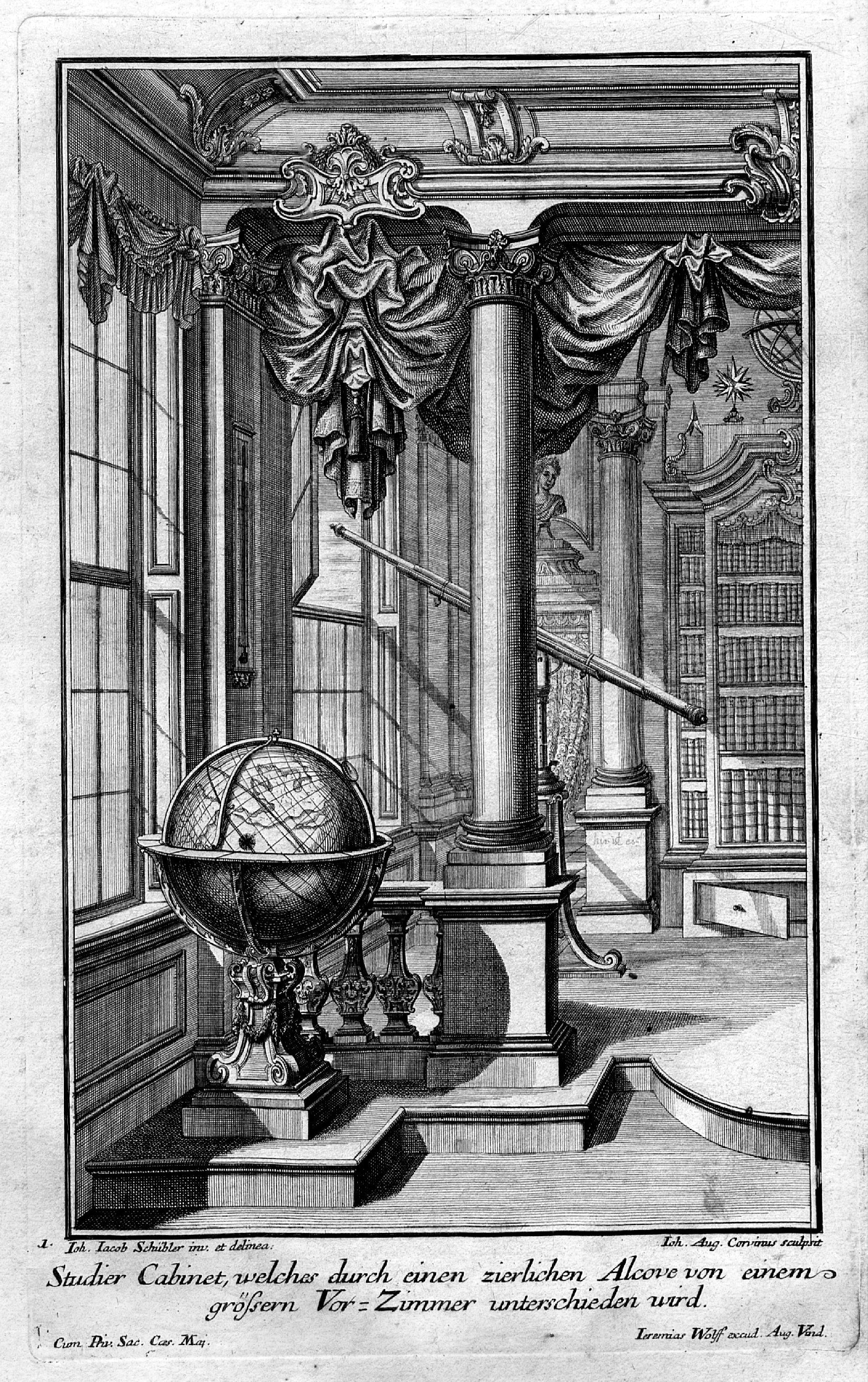 Proposals for baroque architecture and inside decoration. A study.